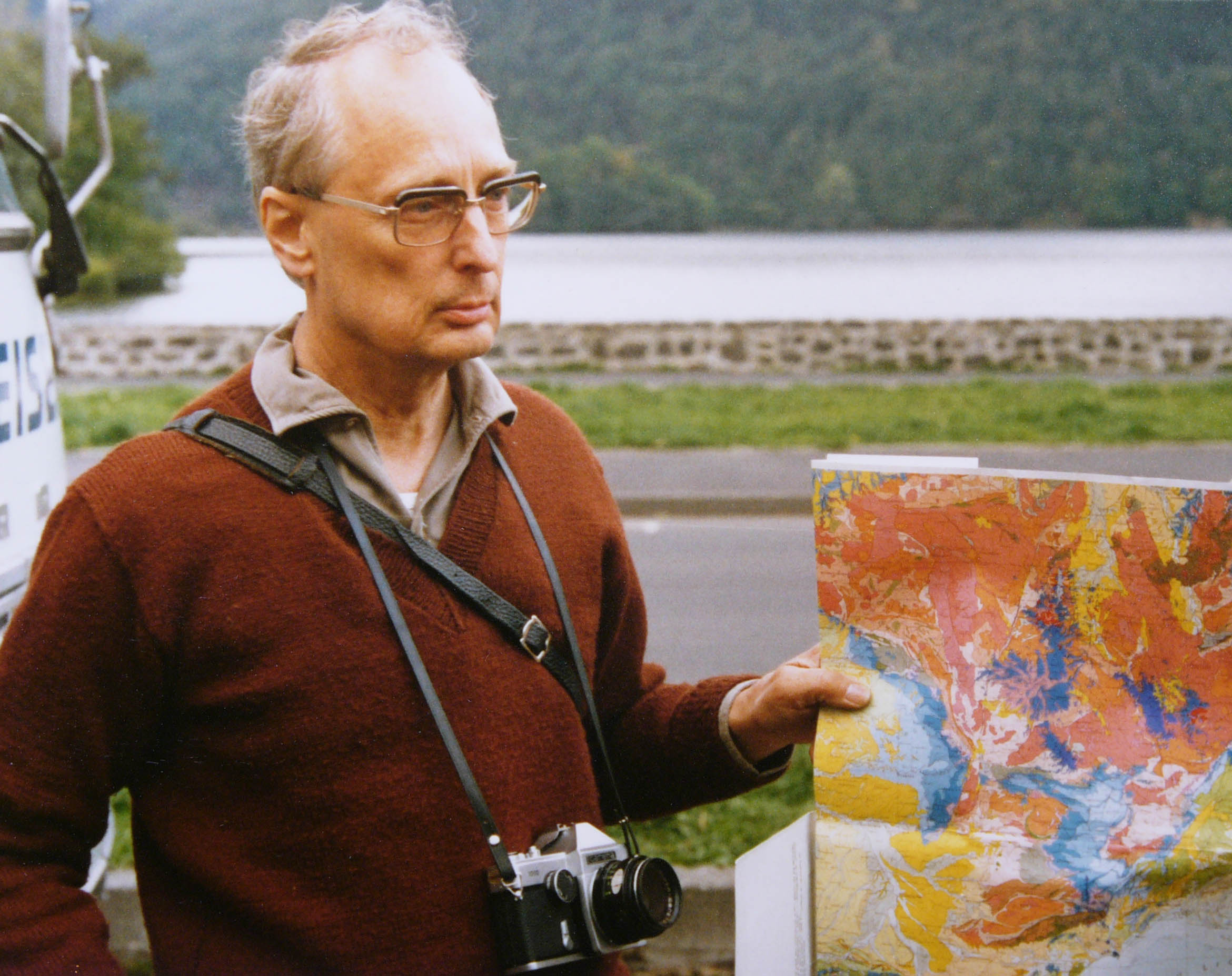 Prof. Dr. Eckhard Walger, a German Professor for Geology, specialized in sedimentology and grain size analysis - showing the geological map of france during an excursion with students to South France